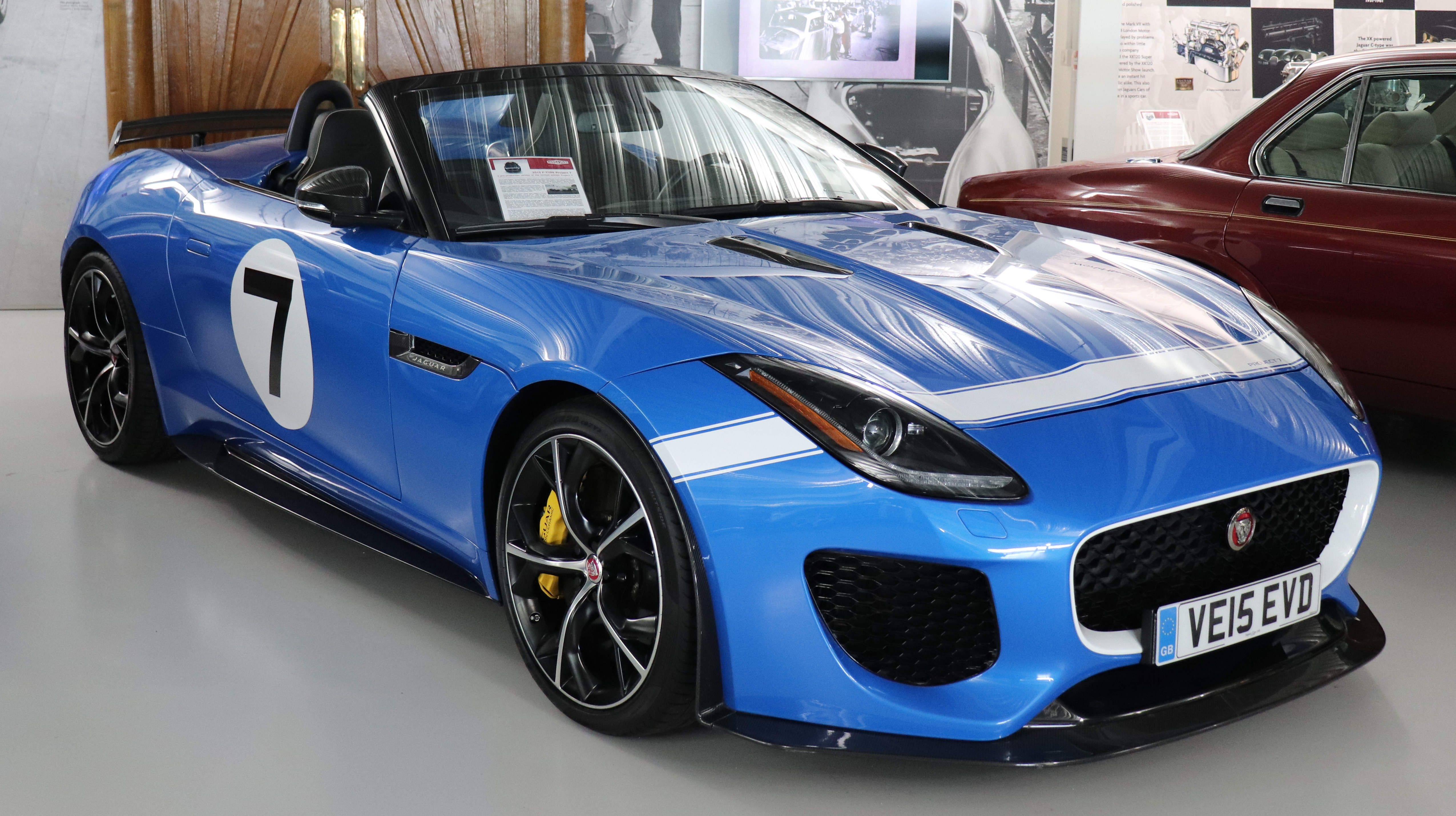 2015 Jaguar F-Type Project 7 5.0 Taken at the British Motor Museum, Gaydon